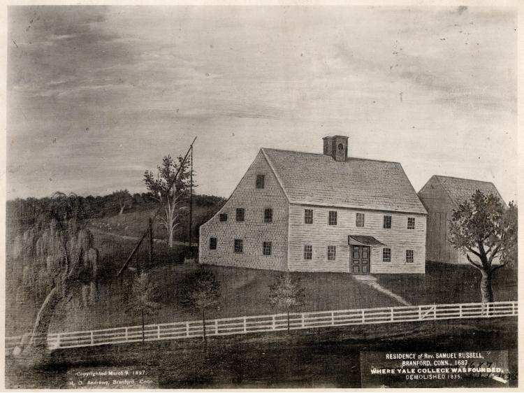 "Drawing of the residence of Rev. Samuel Russel in Branford, Connecticut." Inscription on lower right-hand corner of drawing states that Yale College was founded in this home, which was subsequently demolished in 1835.